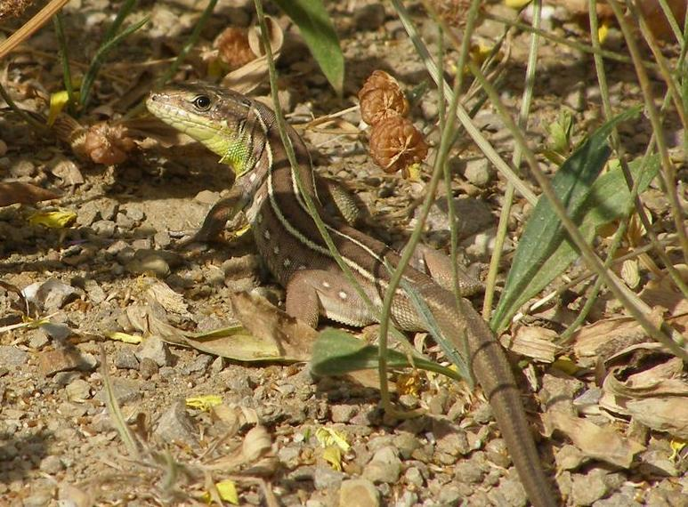 Juvenile lizard of Lacerta trilineata on Crete.